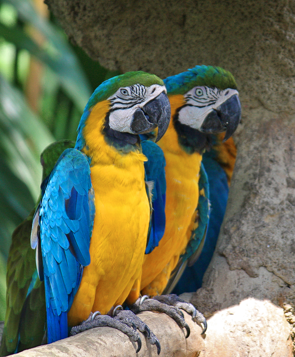 Two Blue-and-gold Macaws at Jurong Bird Park, Singapore.